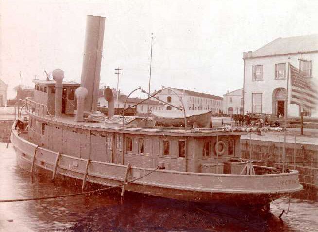 USRC Hudson at Navy Yard, Norfolk, Virginia April 21, 1898.